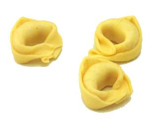 Image of one type of pasta - tortellini. My photo.